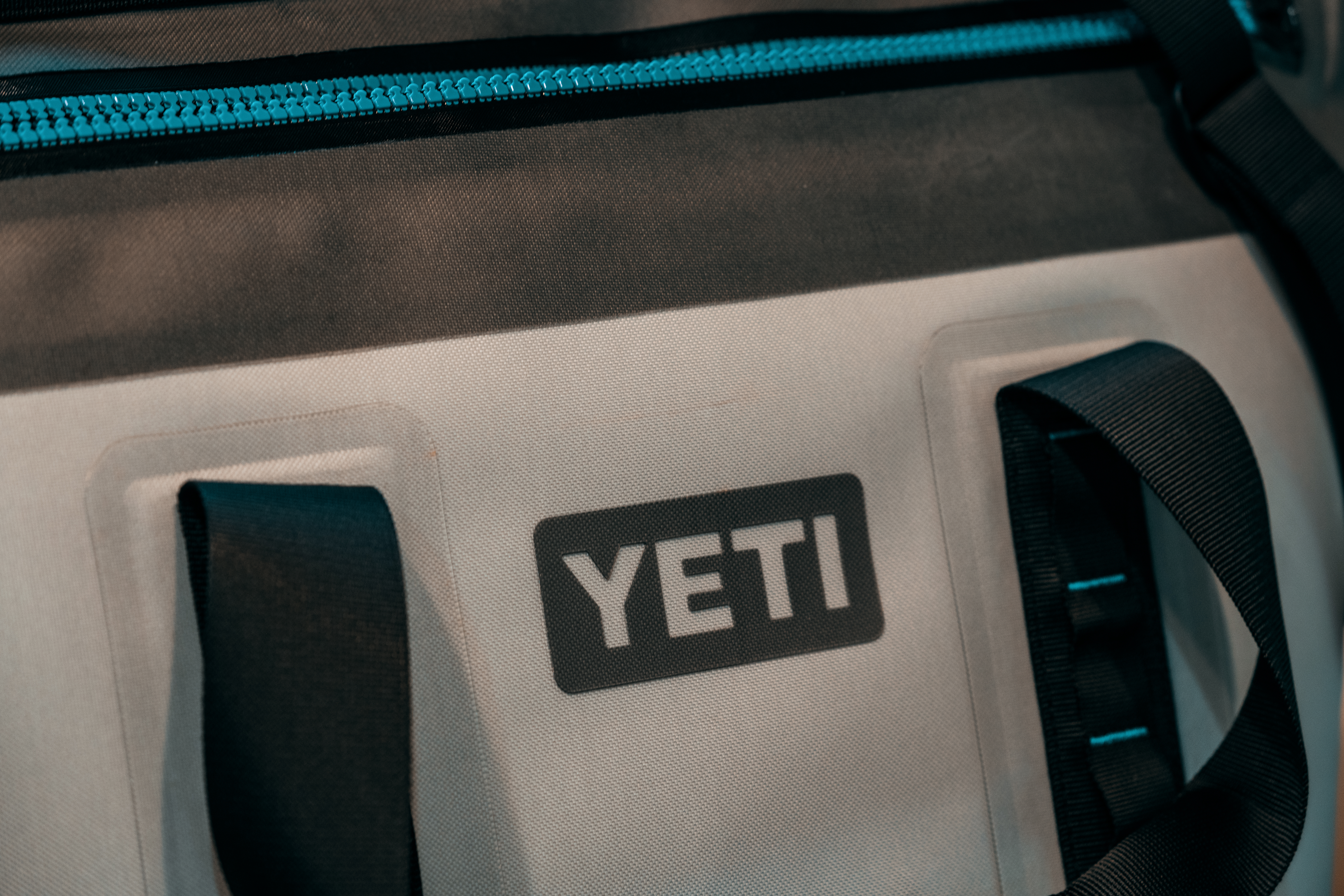 Yeti Hooper Two 20 soft-sided cooler